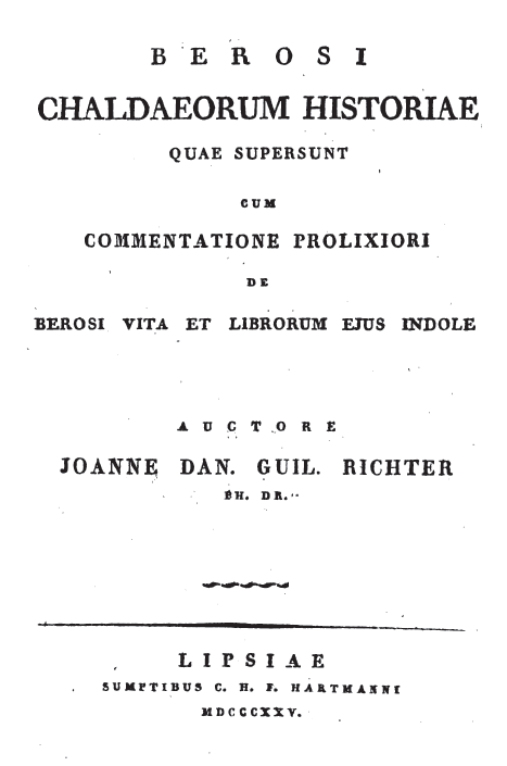 Title Page of the Berosus' edition of 1825